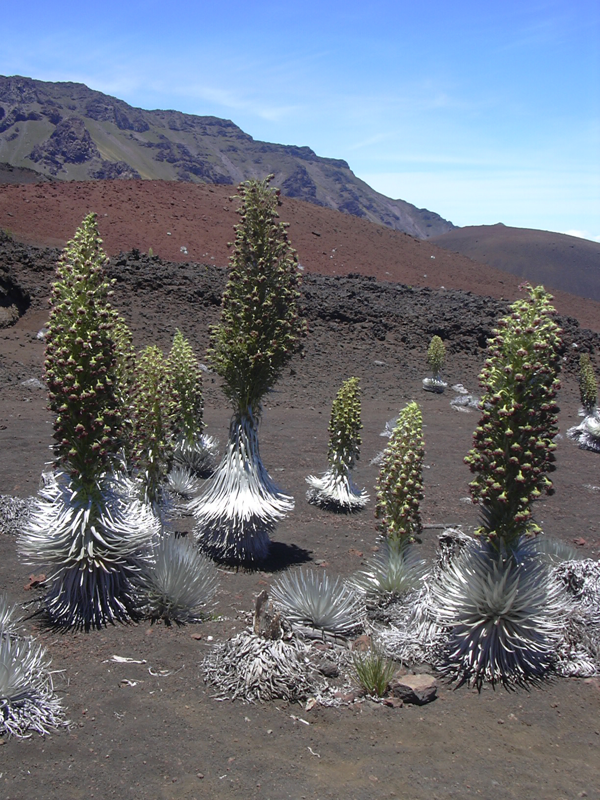 Argyroxiphium sandwicense subsp. macrocephalum (flowering). Location: Maui, Sliding Sands Haleakala National Park